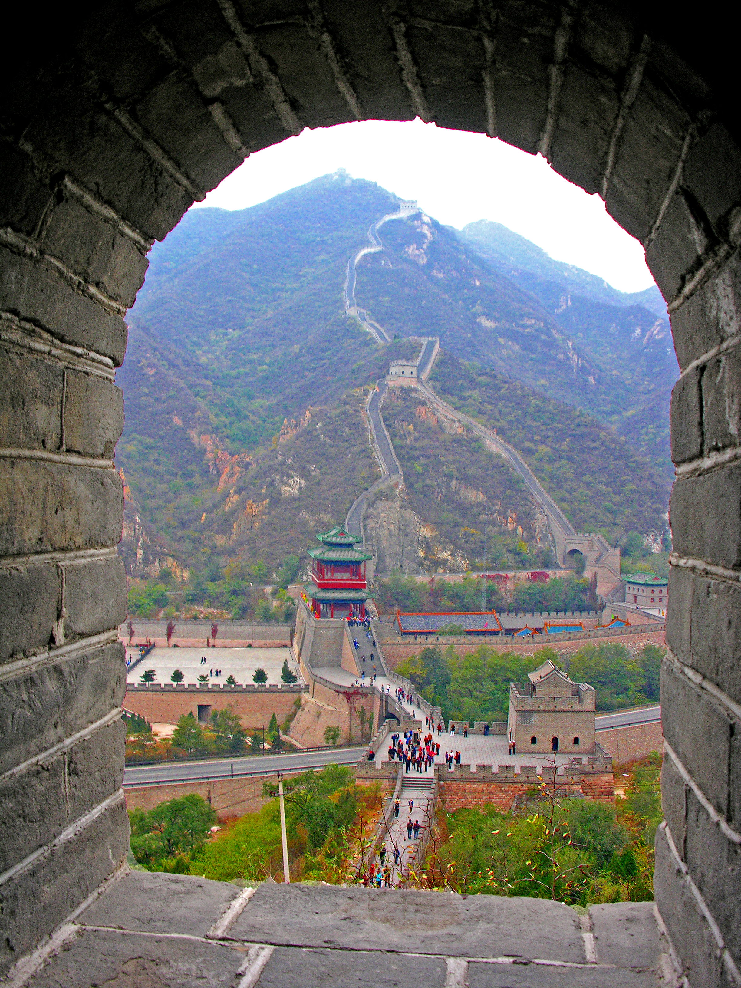 The Juyong Pass, it was first mentioned in a second century BC philosophical book as one of the great nine passes in the competing kingdoms of China. Juyong Pass was also said to have been used in the Qin Dynasty when the First Emperor, Qin Shihuangdi started the Great Wall.My photos are FREE for anyone to use, just give me credit and it would be nice if you let me know. Thanks